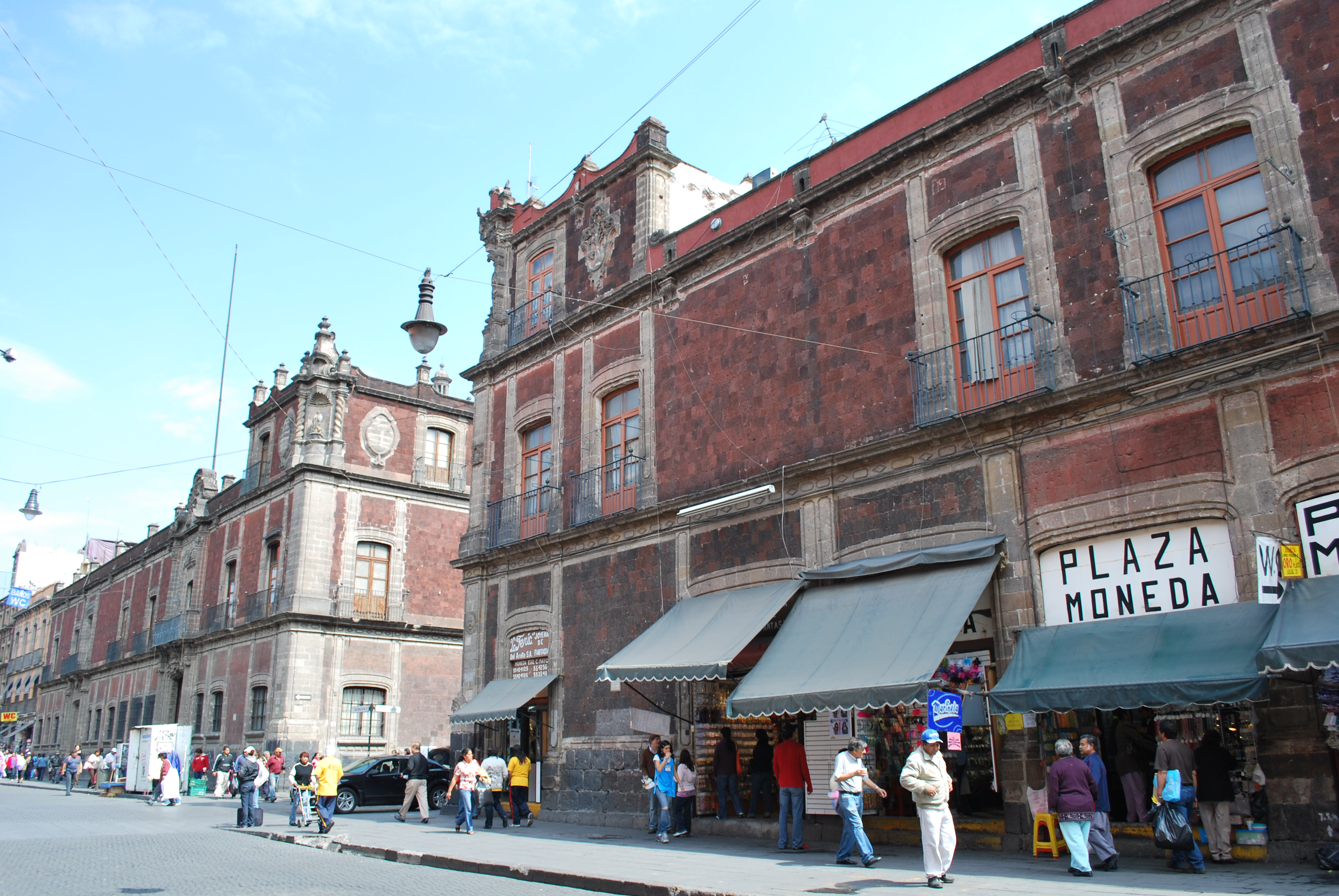 The historic twin home of the Guerrero family in Mexico colonial times. Located on Moneda street in the historic center of Mexico City